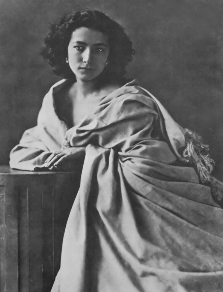 Sarah Bernhardt in the Role of Junie in "Britannicus" by :w:Nadar (photographer)}Felix Nadar| c.1860